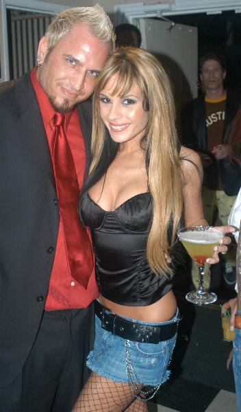 Barrett Blade, Kirsten Price at LA Direct Model's Party, Dec 19, 2005